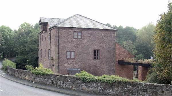 Original photograph taken by John Haynes, October 2005, of Kings Mill, Wrexham